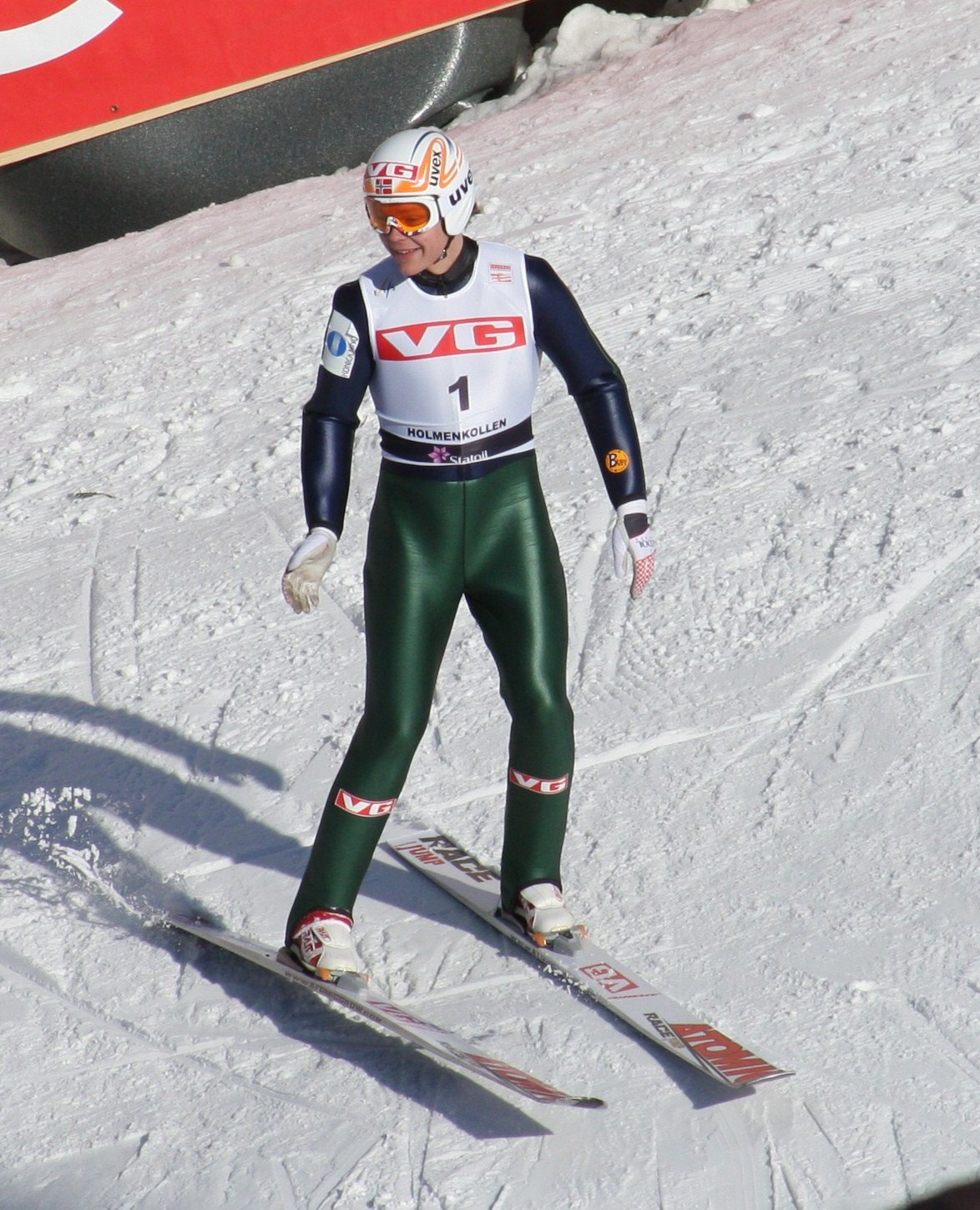 Atle Pedersen Rønsen (NOR) in WC Oslo, Holmenkollen 14 march 2010. This was his debut jump in the world cup